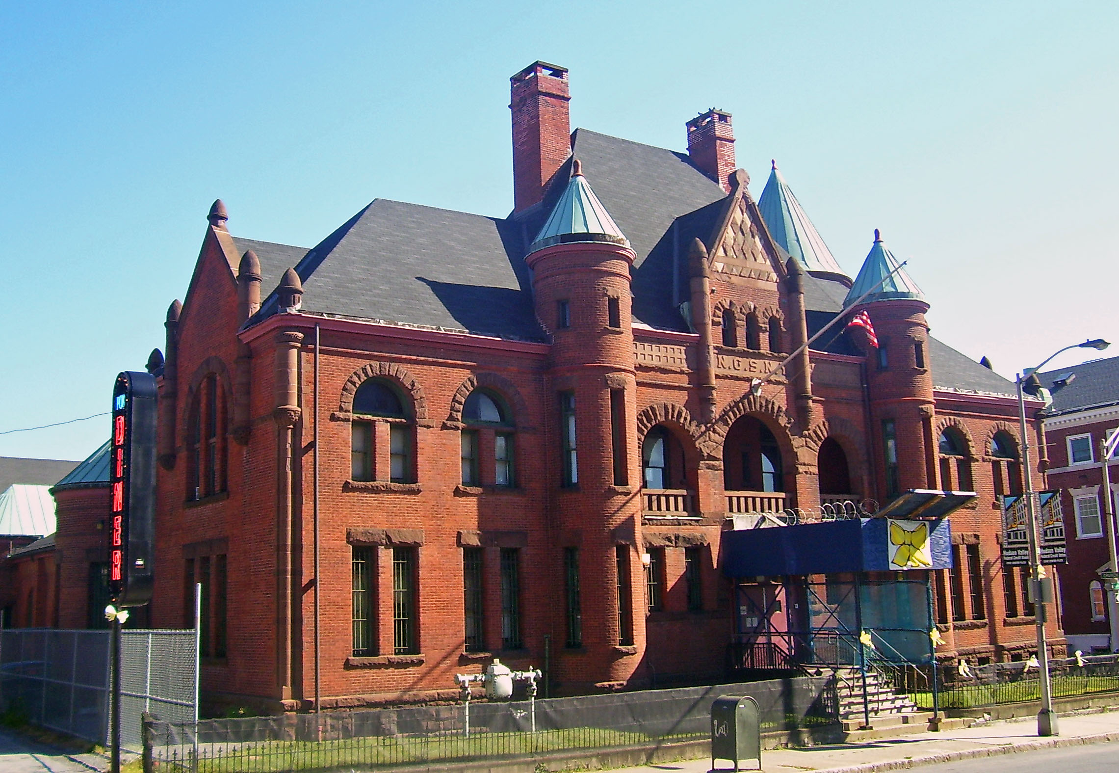 Looking southeast across Market Street at New York State Armory in Poughkeepsie, NY, USA